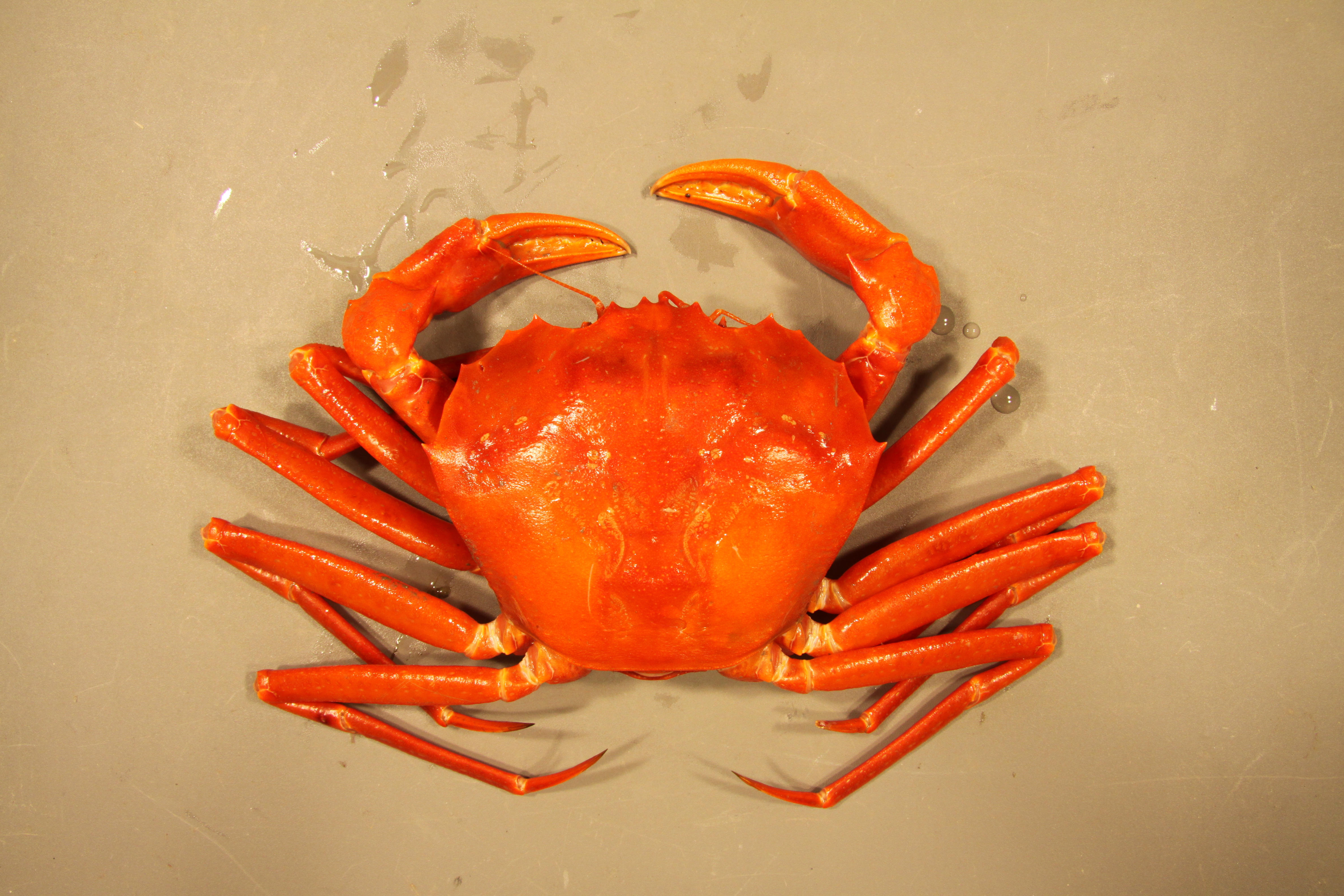 Dorsal view of male red deep-sea crab, Chaceon quinquedens (Brad Stevens)